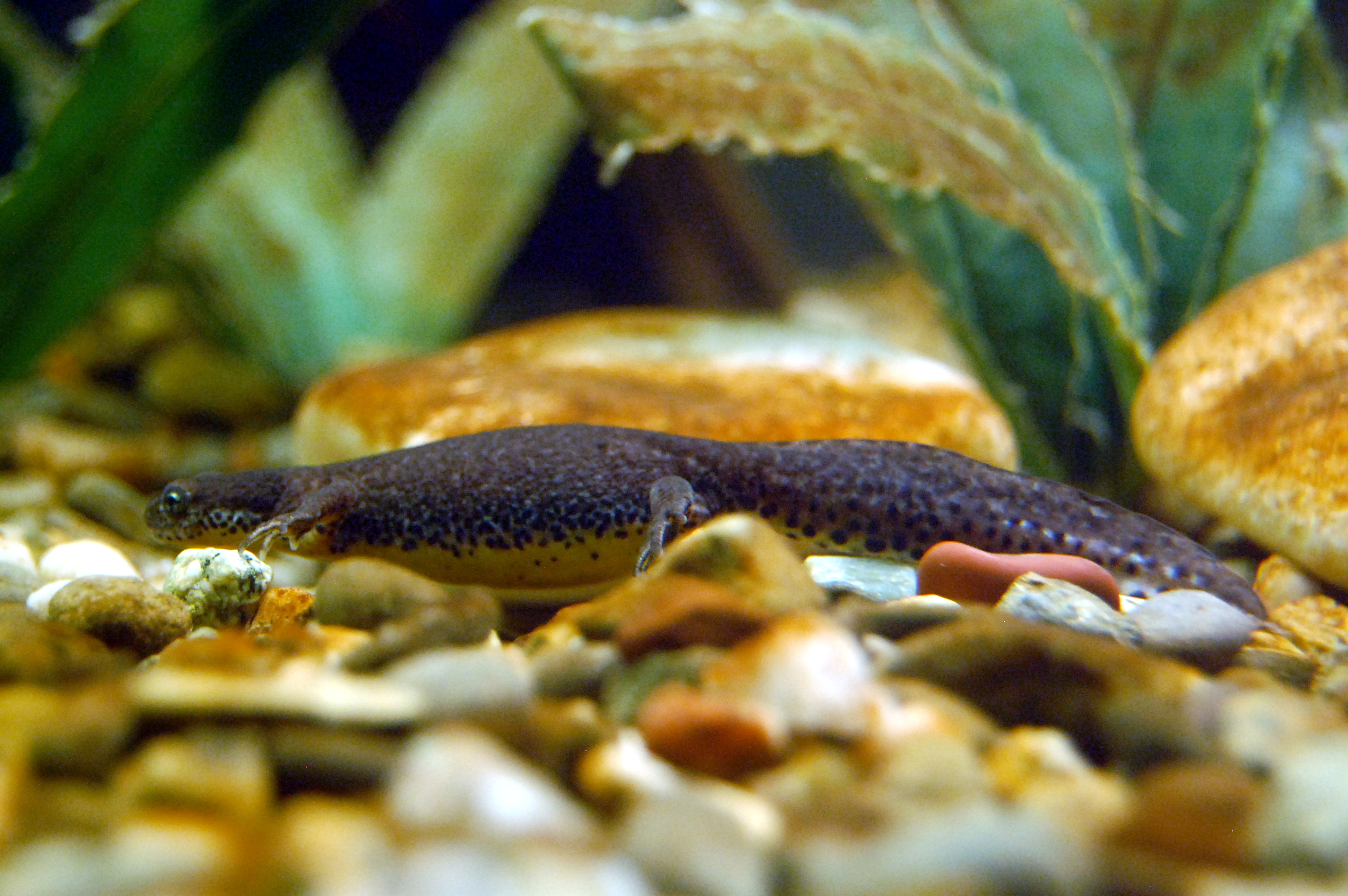 A Lissotriton vulgaris graecus photographed at the Aquarium of Kastoria. The title of the tank's sign read "Triturus vulgaris graecus".